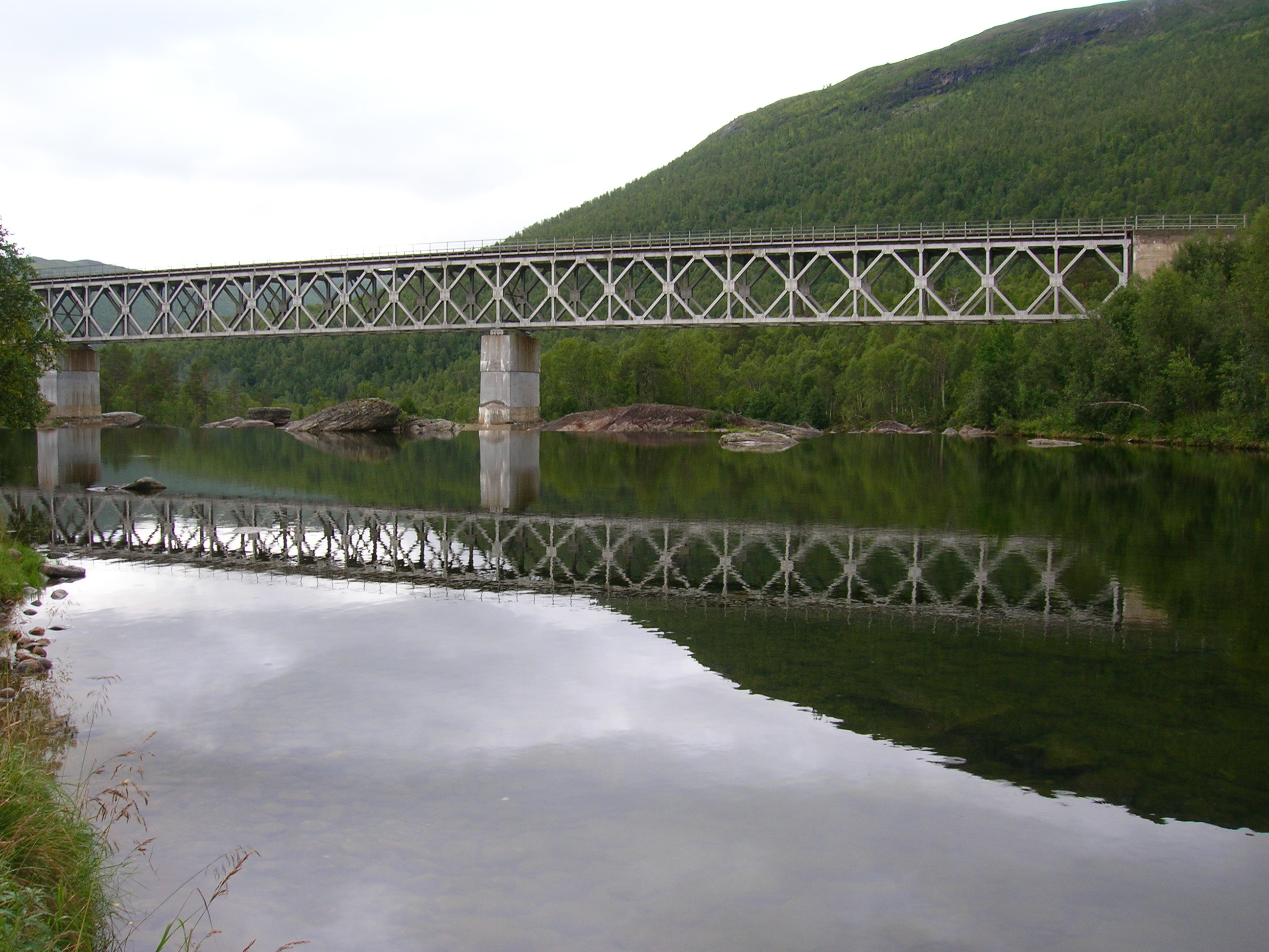 Nordlandsbanen (Nordland railway) crossing Ranelva at Storvoll, Dunderland, Rana municipality, county of Nordland, Norway, Photo 26 August, 2007 with a Nikon Coolpix 5600 5,1 Megapixel camera.